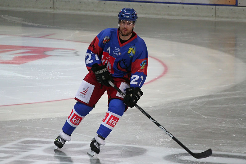 EHC Dortmund - #27 - T.J. Sakaluk